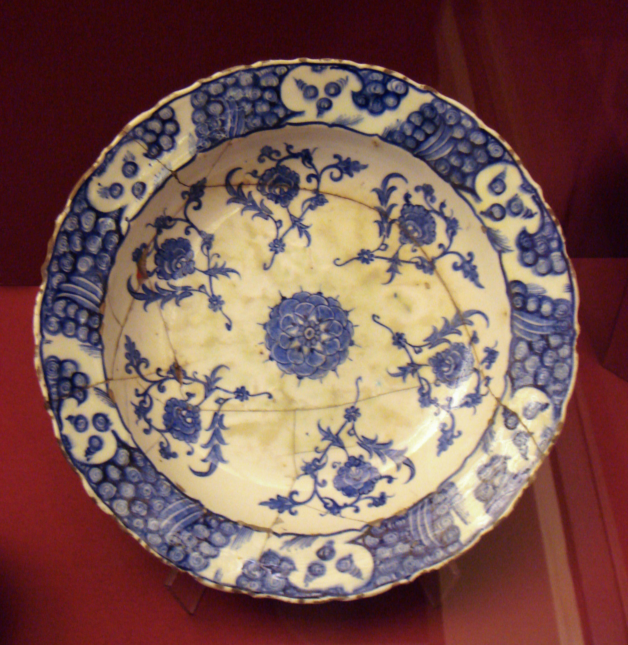 Iznik_pottery_with_foliate_rim_16th_century